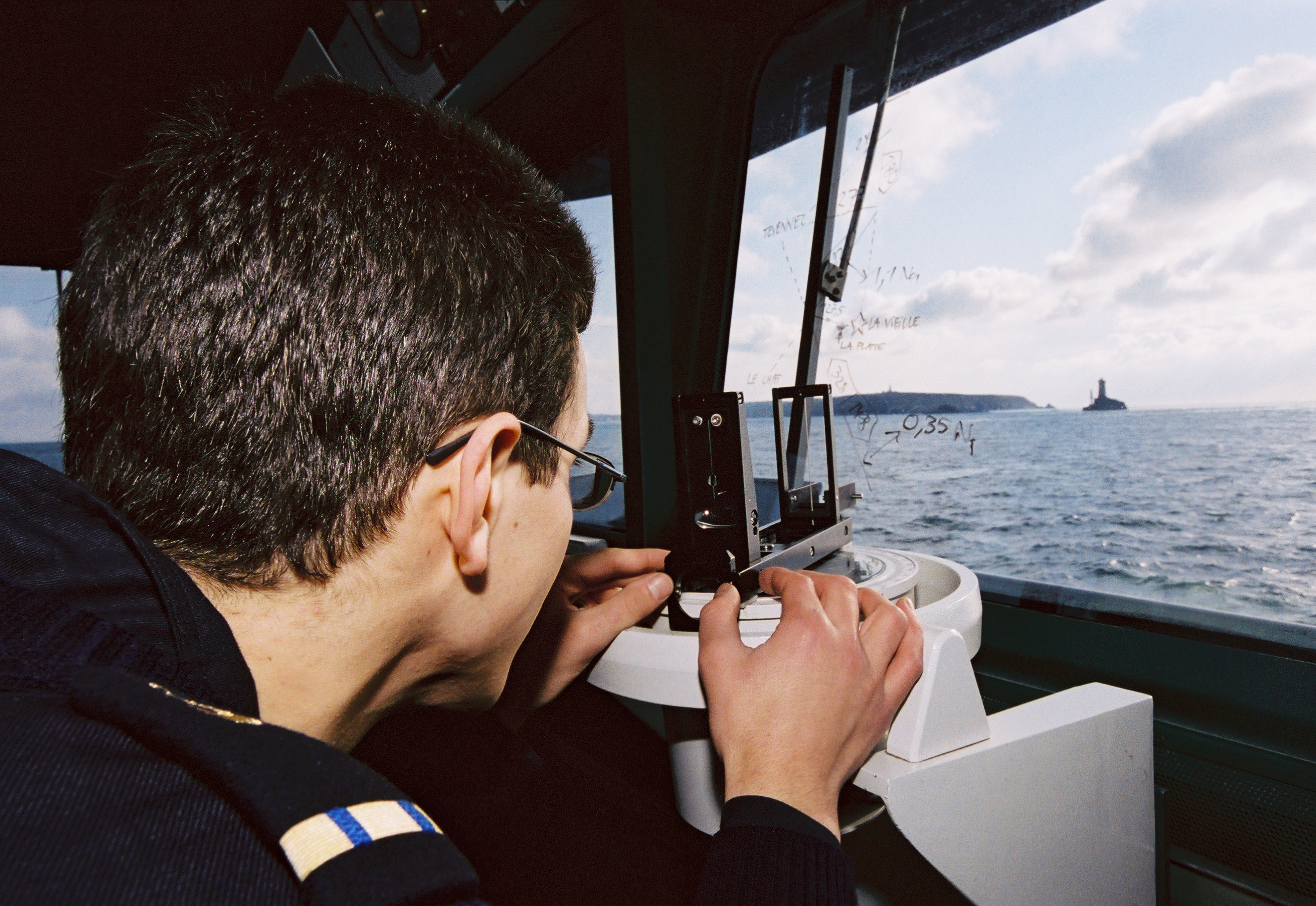 An « Aspirant » of the French Navy taking a naval measurement on the board of the patrol boat Cormoran.